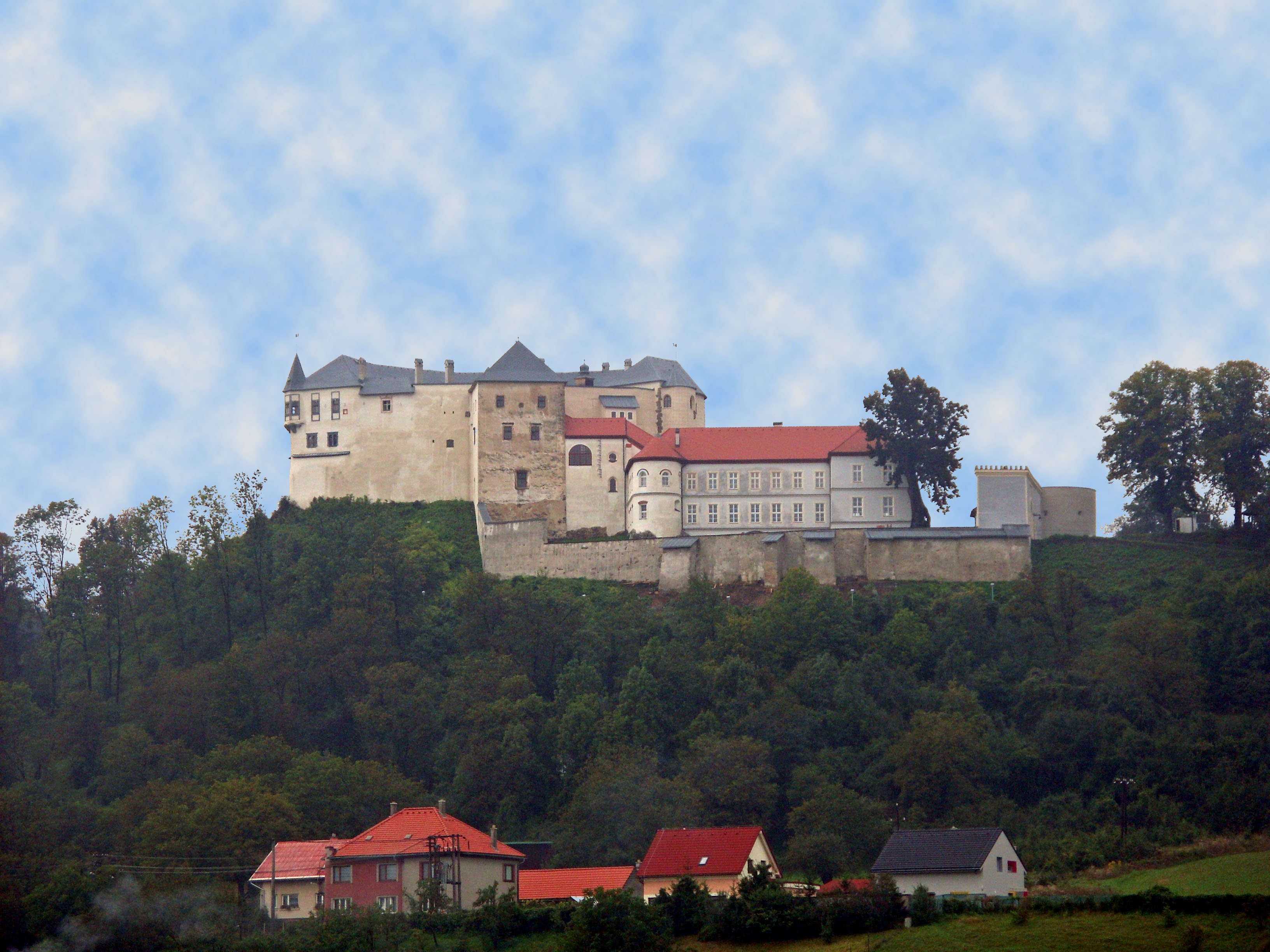 Ľupča Castle, Slovenská Ľupča, Slovakia This medium shows the protected monument with the number 601-77/1 in the Slovak Republic.